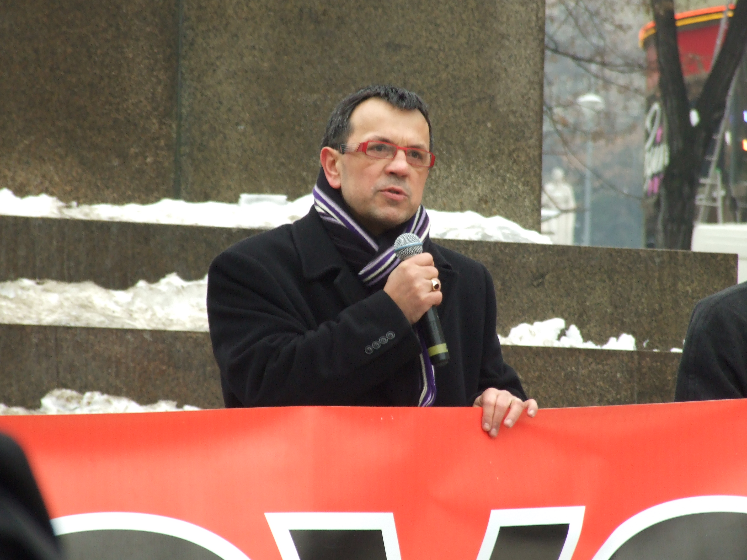 Demonstration of the "Friends of Serbs in Kosovo" organization in Prague, Václavské náměstí square. The date 2010/02/17 was chosen because of the 2nd anniversary of Kosovo's declaration of independence. Here the chairman of the organization - Jaroslav Foldyna - speaking about events in 1939, 1968 and comparing these with recognition of Kosovo by Czech government